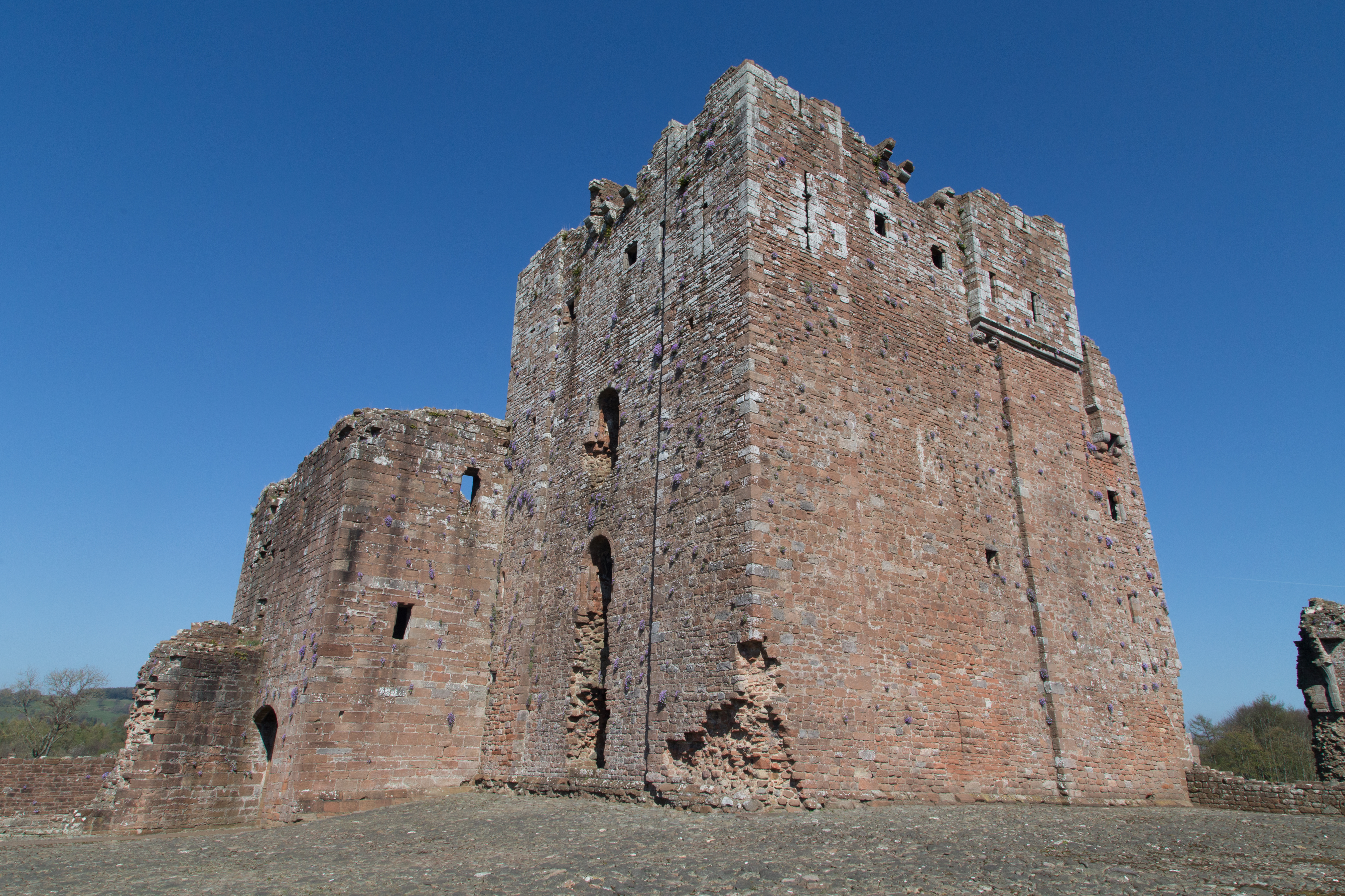 Brougham Castle Wikidata has entry Q2968700 with data related to this item.